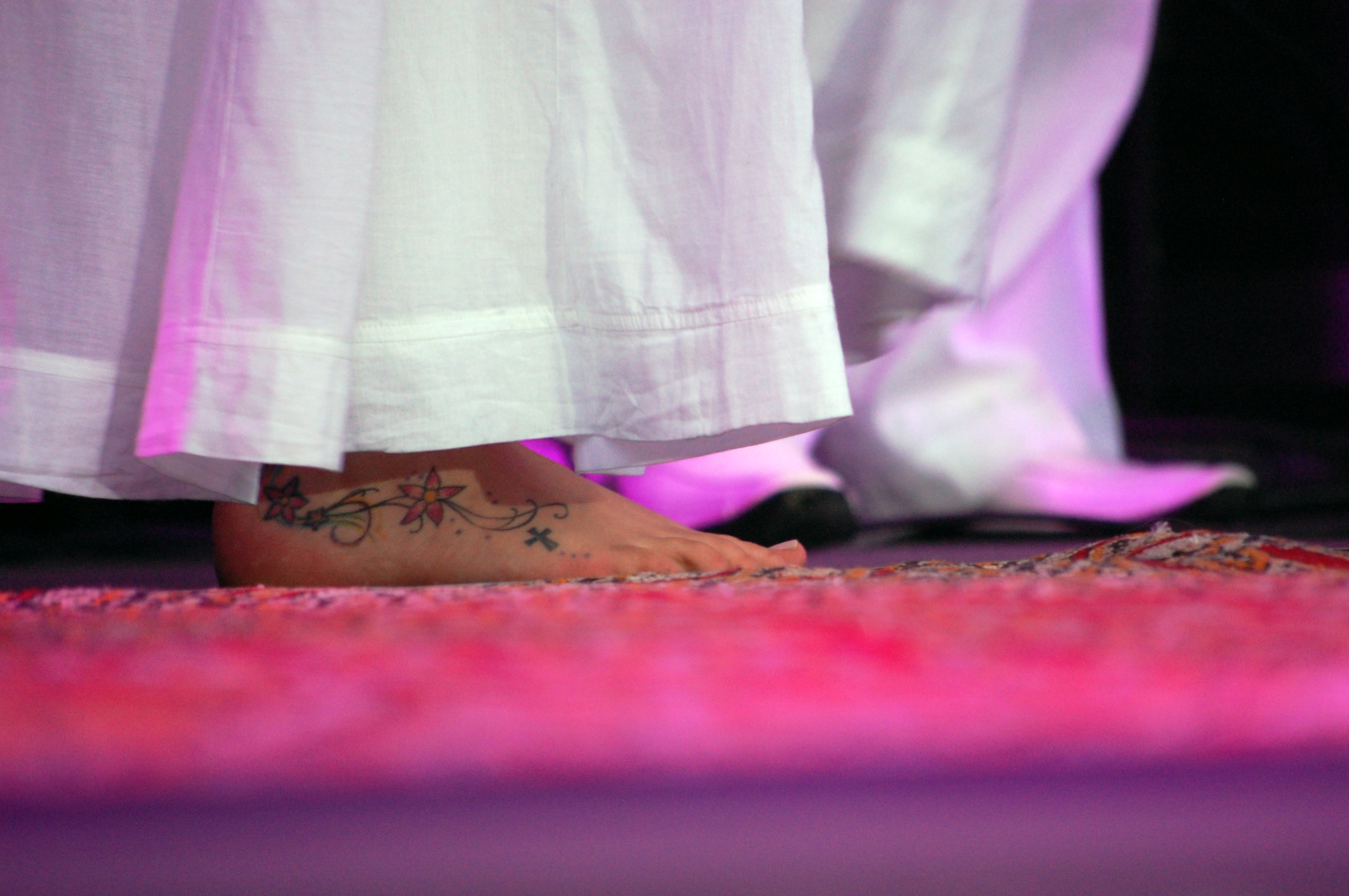 Joss Stone at Stockholm jazz fest, 19th July, 2009.